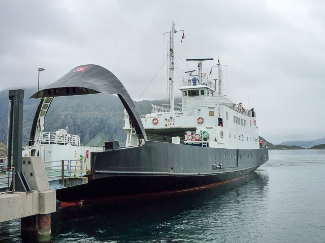 MF Eid at Værlandet ferry terminal